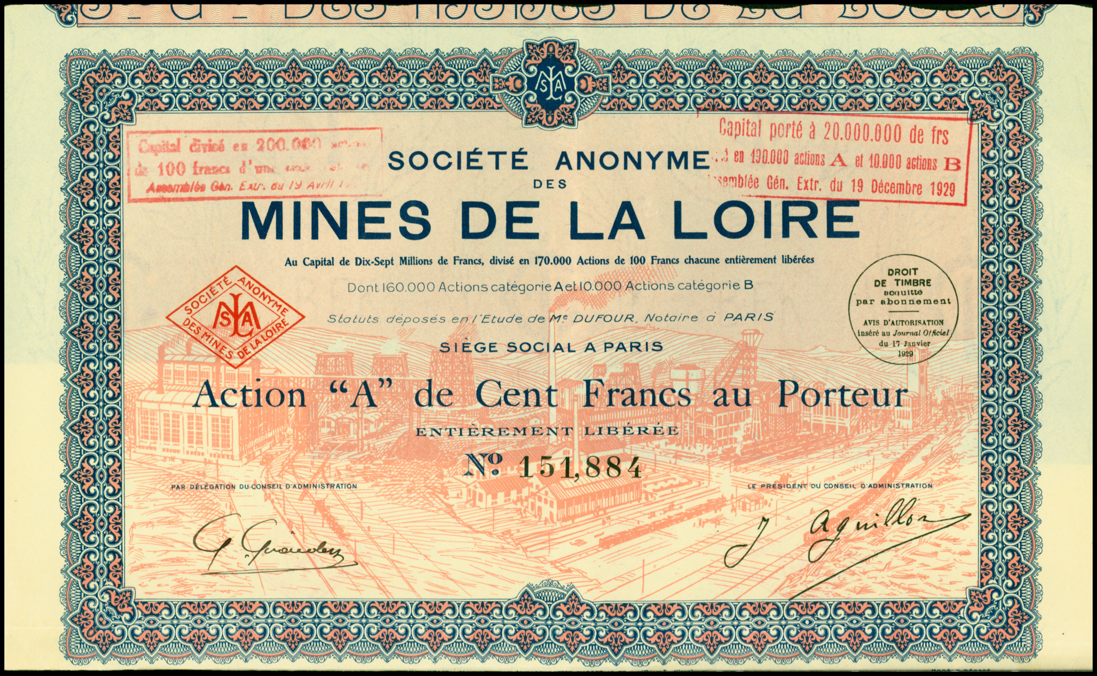 Share of the SA des Mines de la Loire, issued 17. January 1929